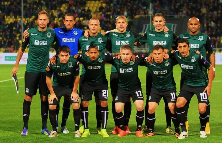 FC Krasnodar